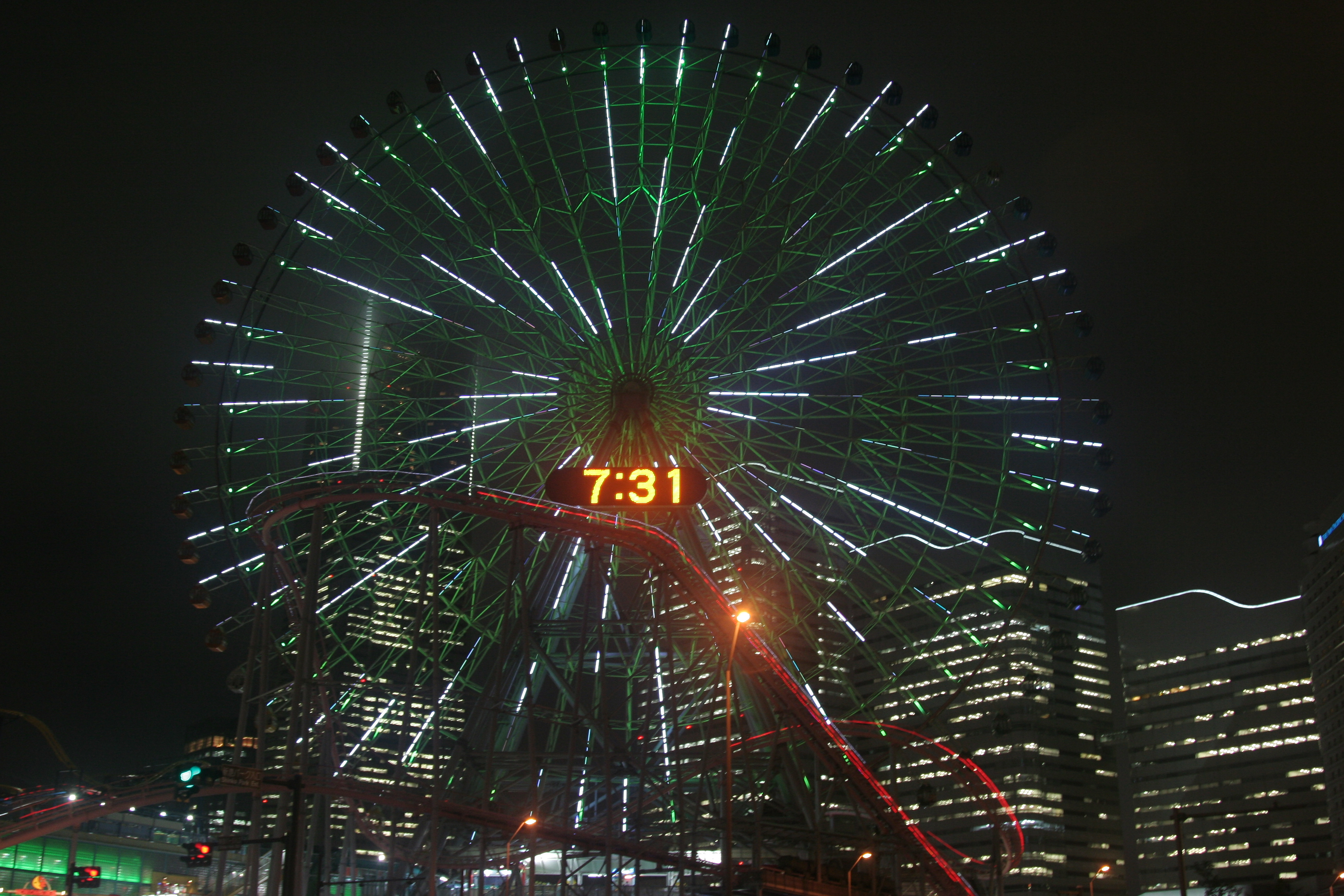 Large ferris wheel in Yokohama (photographed in 2009)